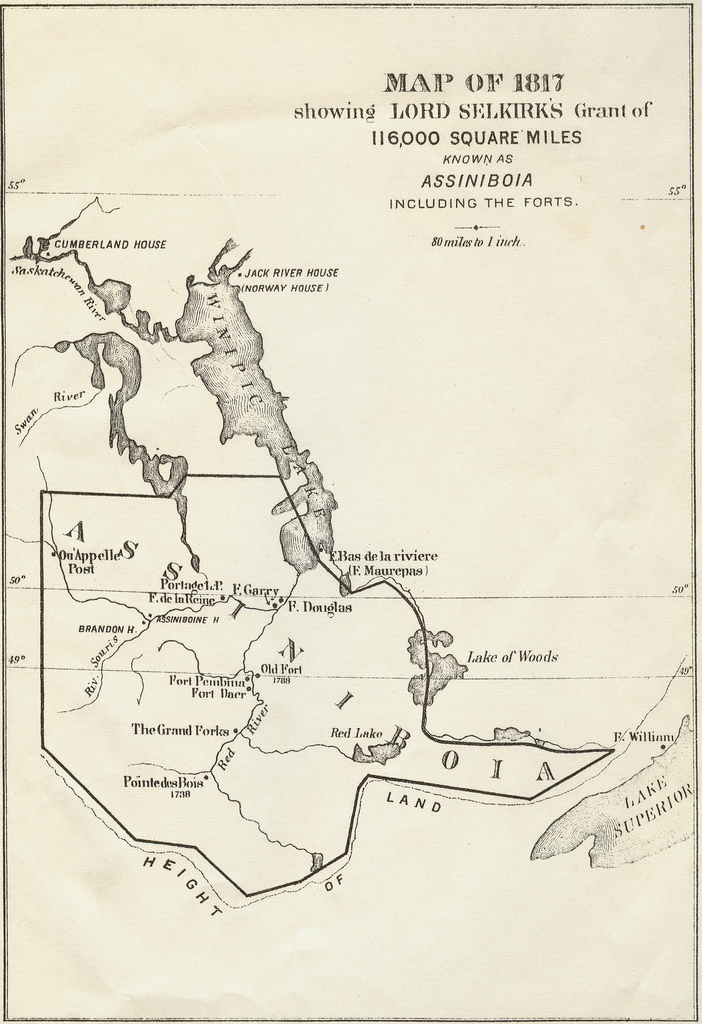 Map illustrating Lord Selkirks 116,000 Square Miles land grant, area which was known as Assiniboia.